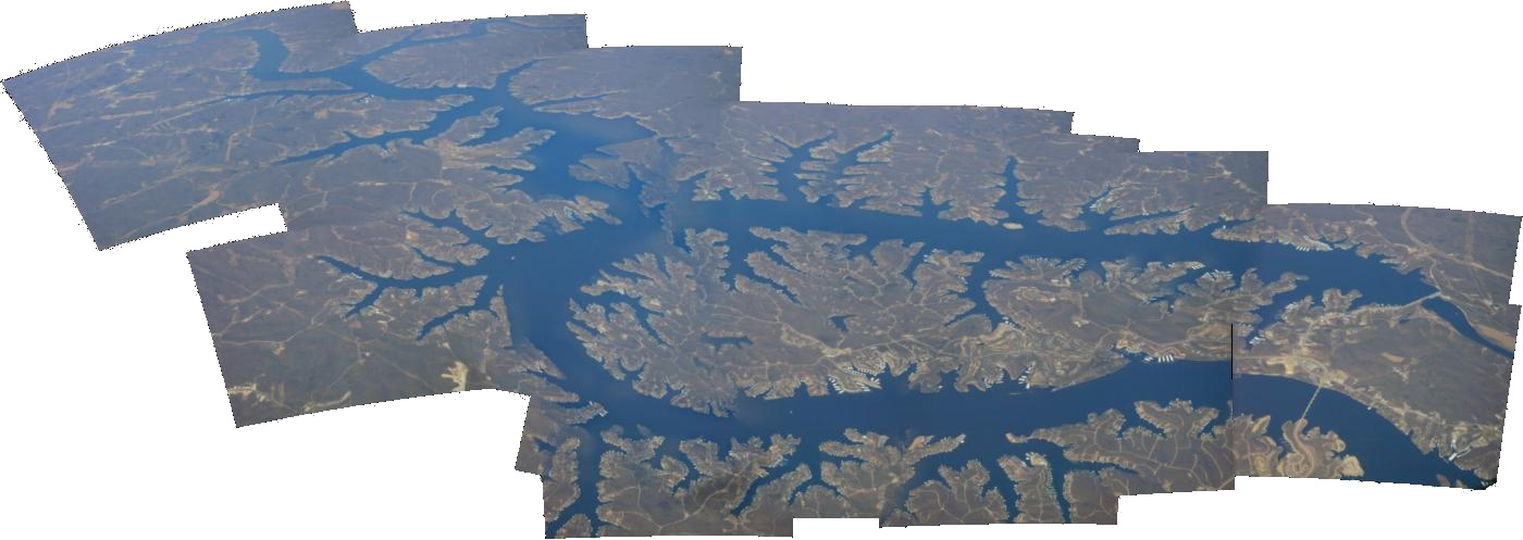 Aerial photomosaic of the Lake of the Ozarks in Missouri